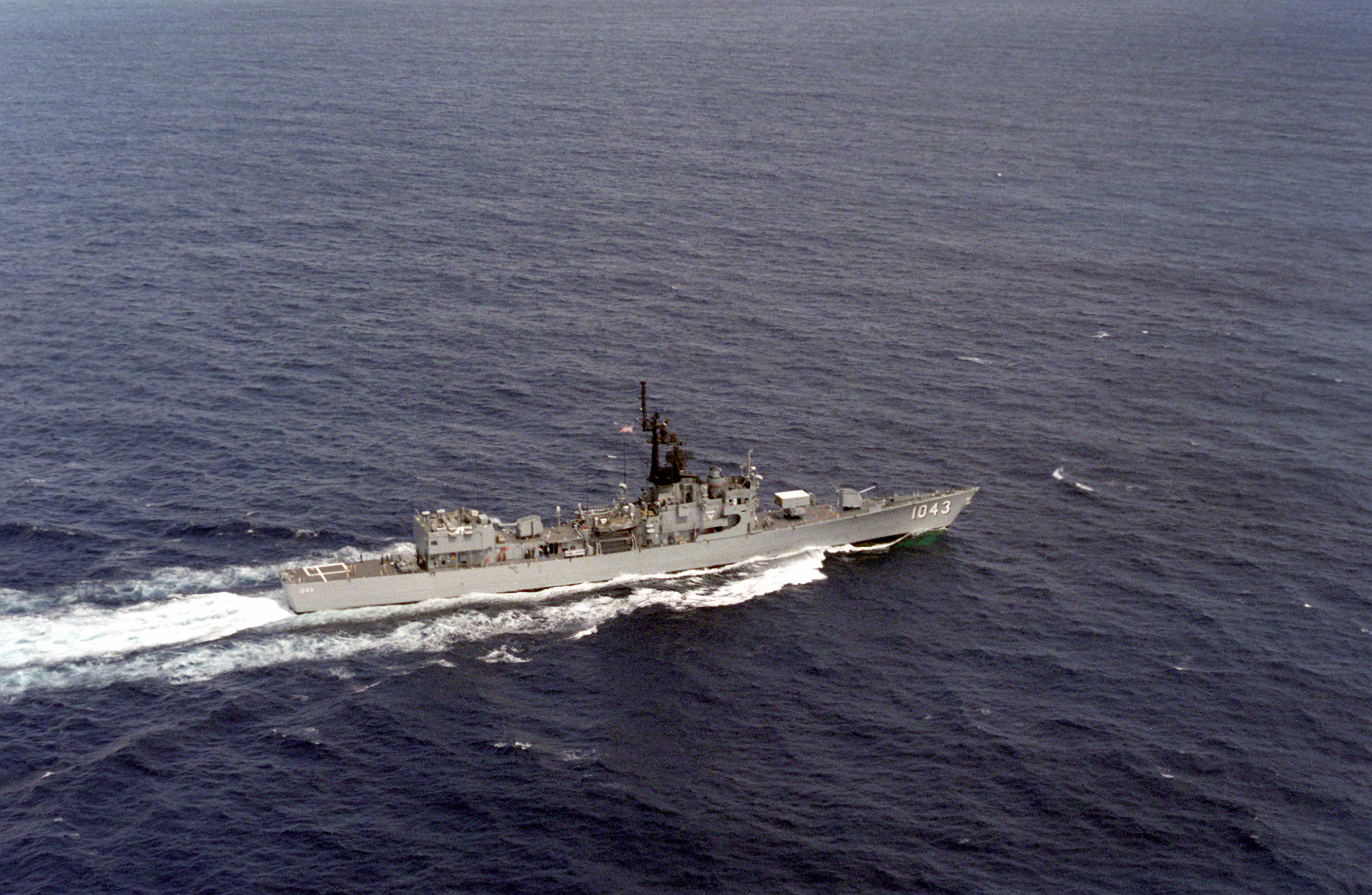 The U.S. Navy frigate USS Edward McDonnell (FF-1043) underway at sea on 20 November 1986.